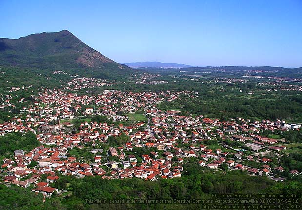 View of Villar Dora (Torino), Piemonte, Italy